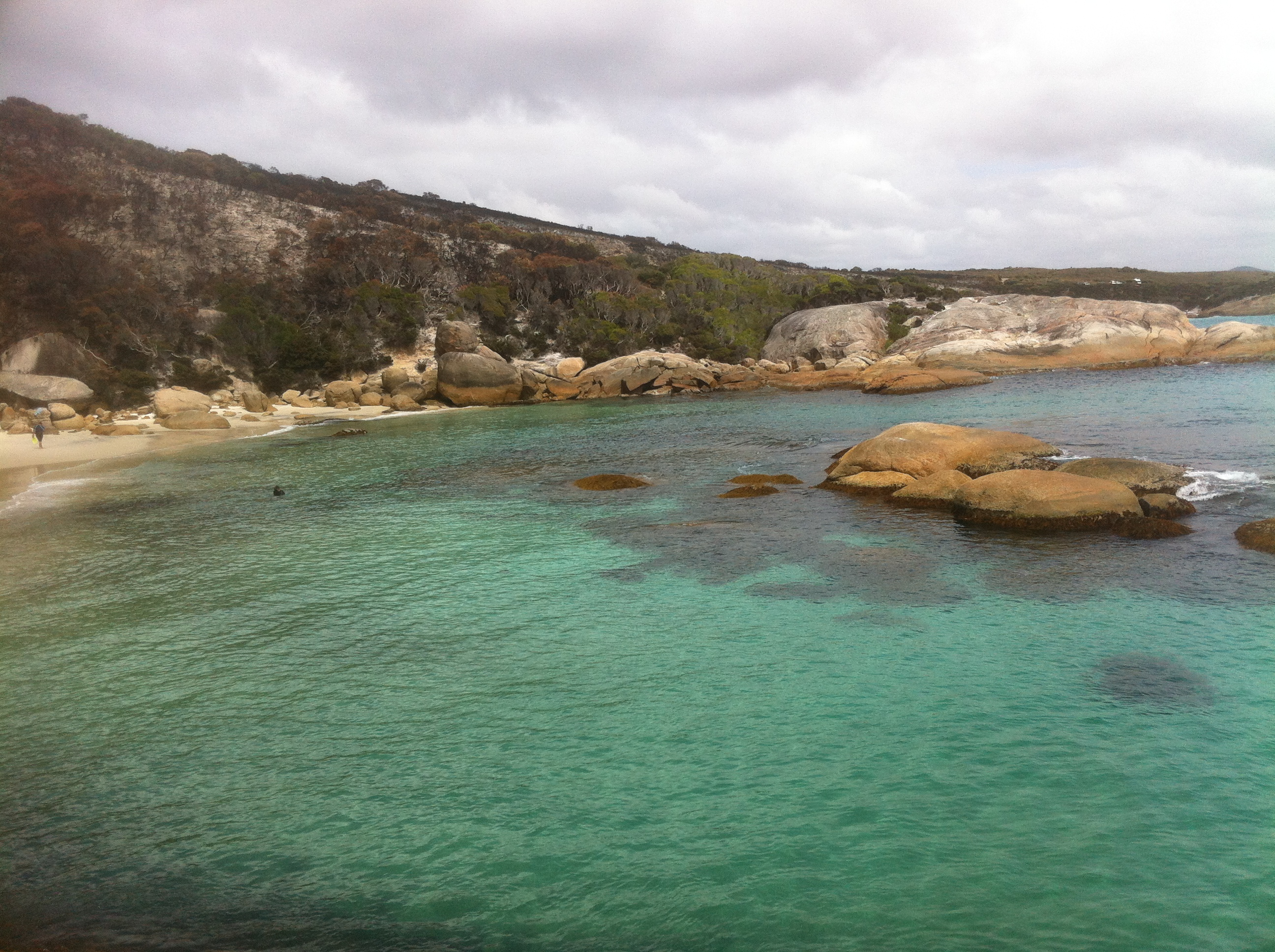 Waterfall Beach in Two Peoples Bay 2015